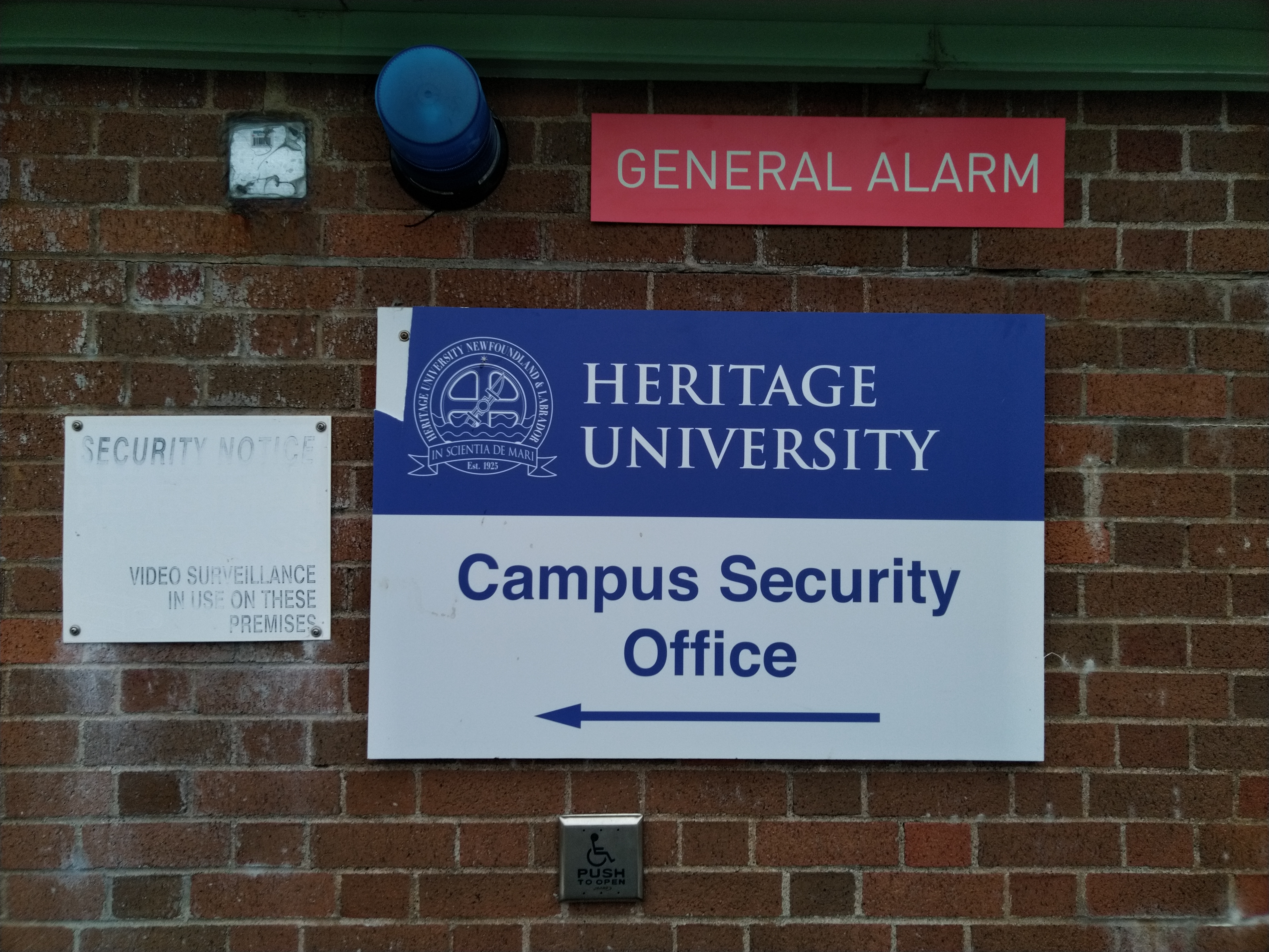 Set dressing for the Hudson and Rex episode School Daze. Taken 2018.12.15.